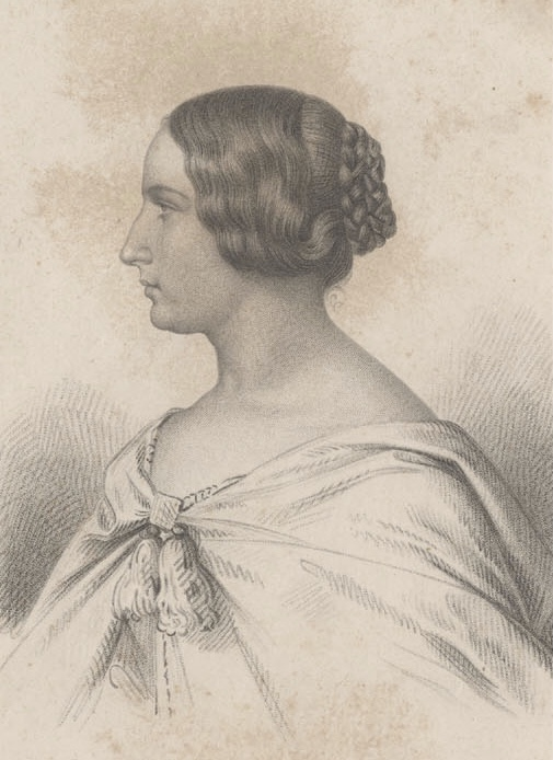 Pencil drawing of Dora d'Istria